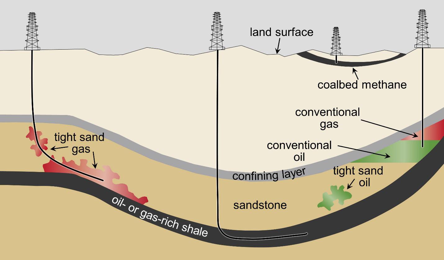 Shown are conceptual illustrations of types of oil and gas wells. A vertical well is producing from a conventional oil and gas deposit (right). In this case, a gray confining layer serves to “trap” oil (green) or gas (red). Also shown are wells producing from unconventional formations: a vertical coalbed methane well (second from right); a horizontal well producing from a shale formation (center); and a well producing from a tight sand formation (left). Note: Figure not to scale. Modified from USGS (2002) and Newell (2011).